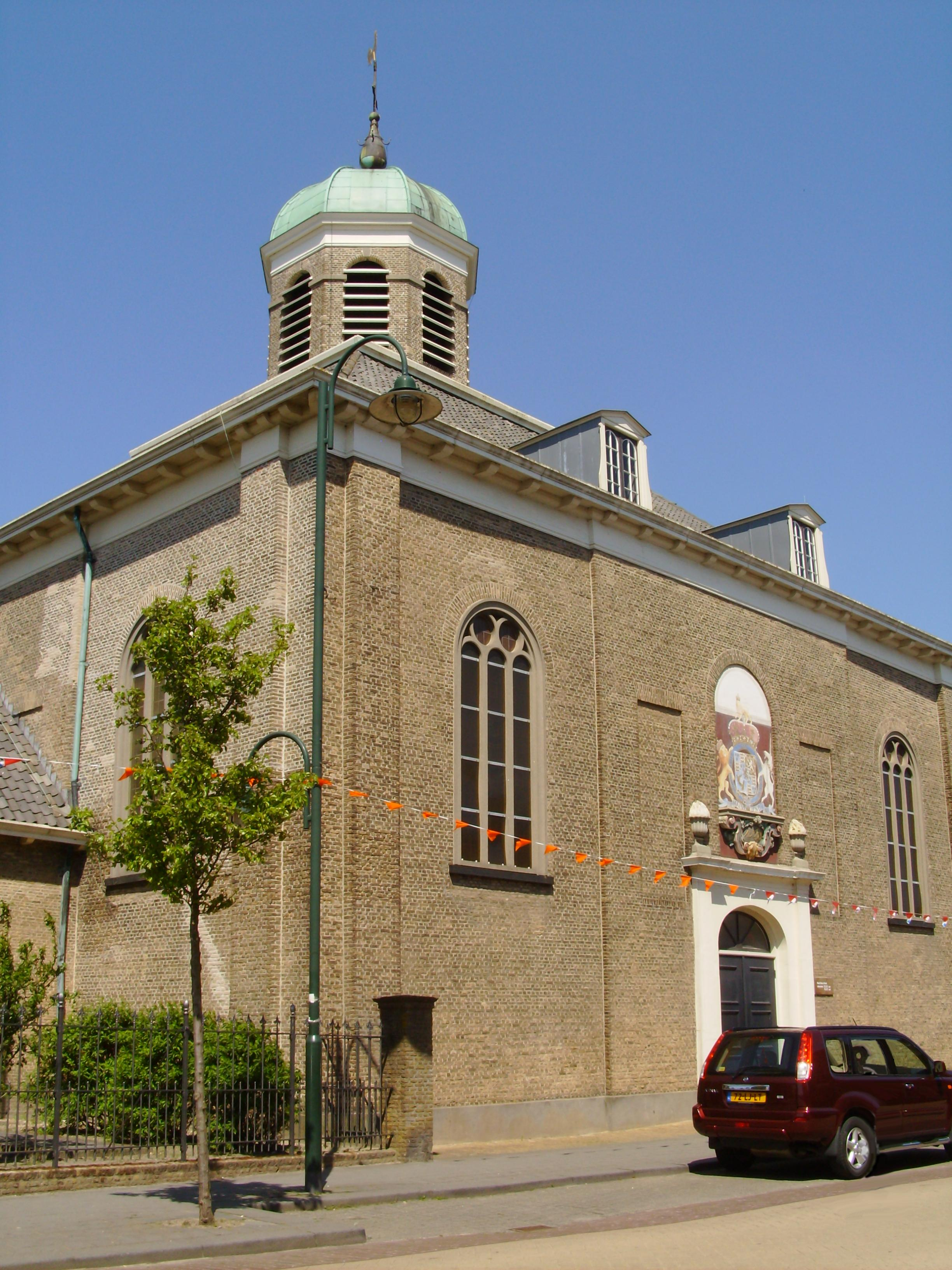 Dutch Reformed Church in Dinteloord, the Netherlands